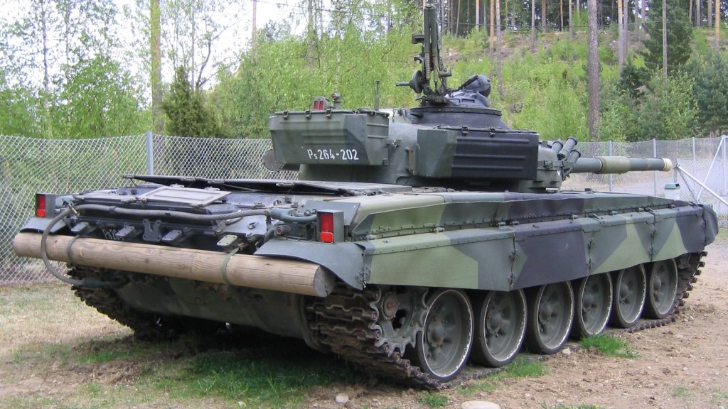 Former Finnish Army Tank T-72 in Parola Tank Museum, Finland. T-72 panssarivaunu Parolan Panssarimuseossa. Own work. Oma kuva.